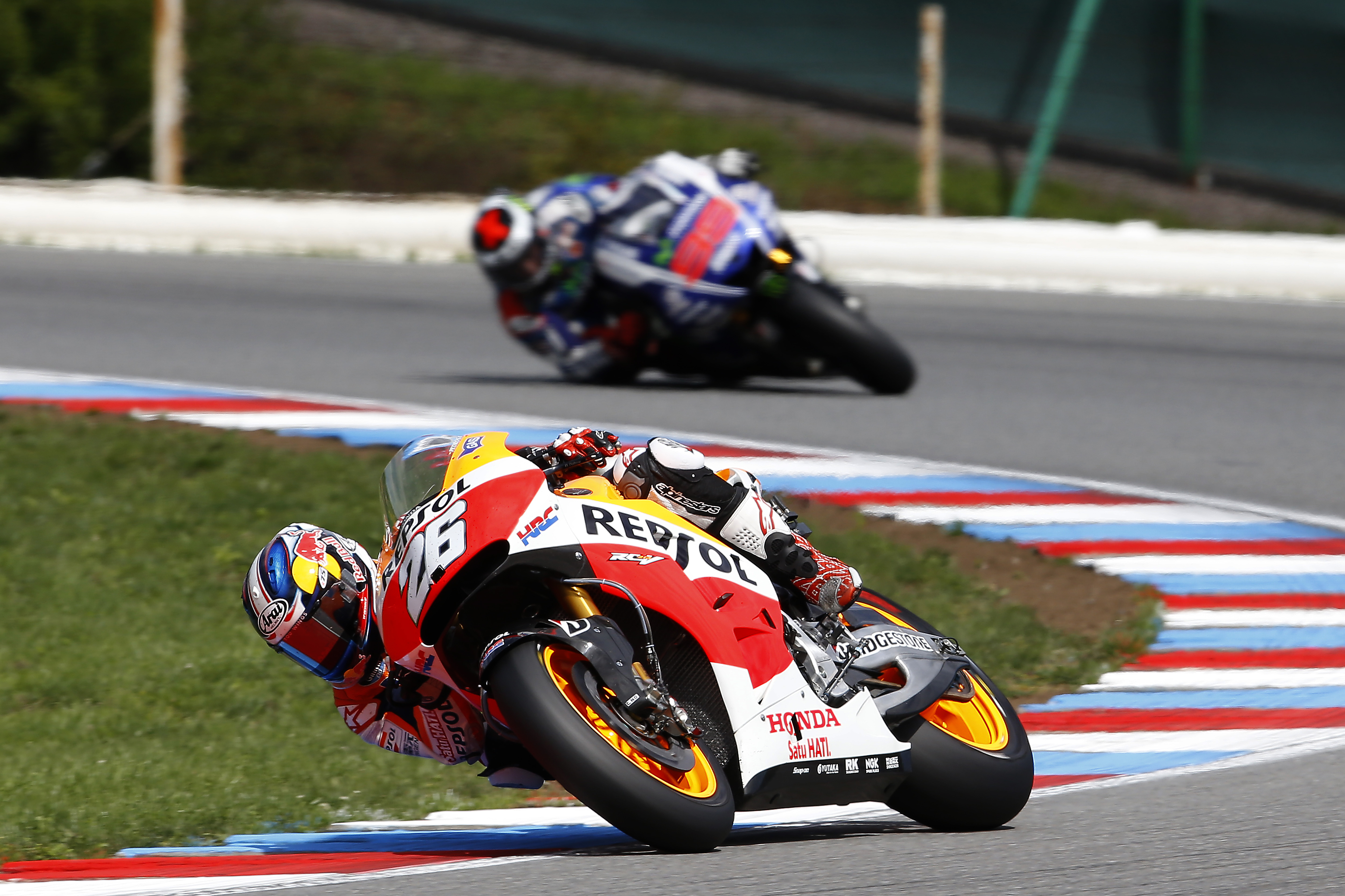 Dani Pedrosa, riding his Repsol Honda, being followed by the Movistar Yamaha of Jorge Lorenzo at the 2014 Czech Republic Grand Prix.